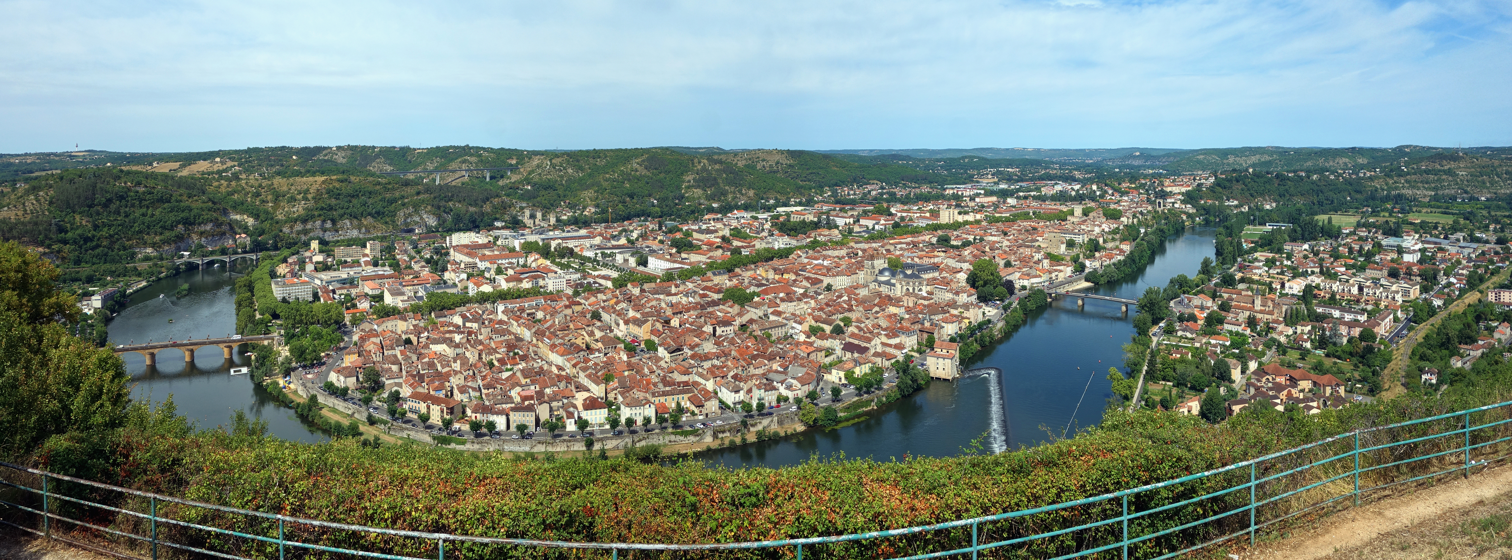 Sight over Cahors from Mont Saint-Cyr, Lot.